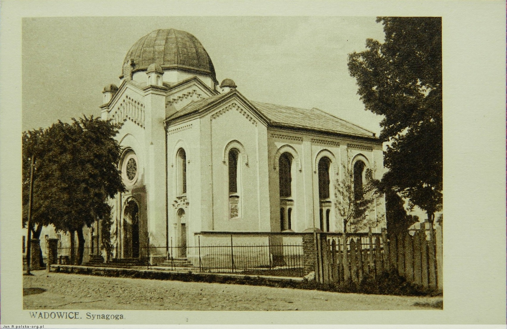 Synagogue of Frauenstadt (Wadowice) destroyed by the nazis in 1939